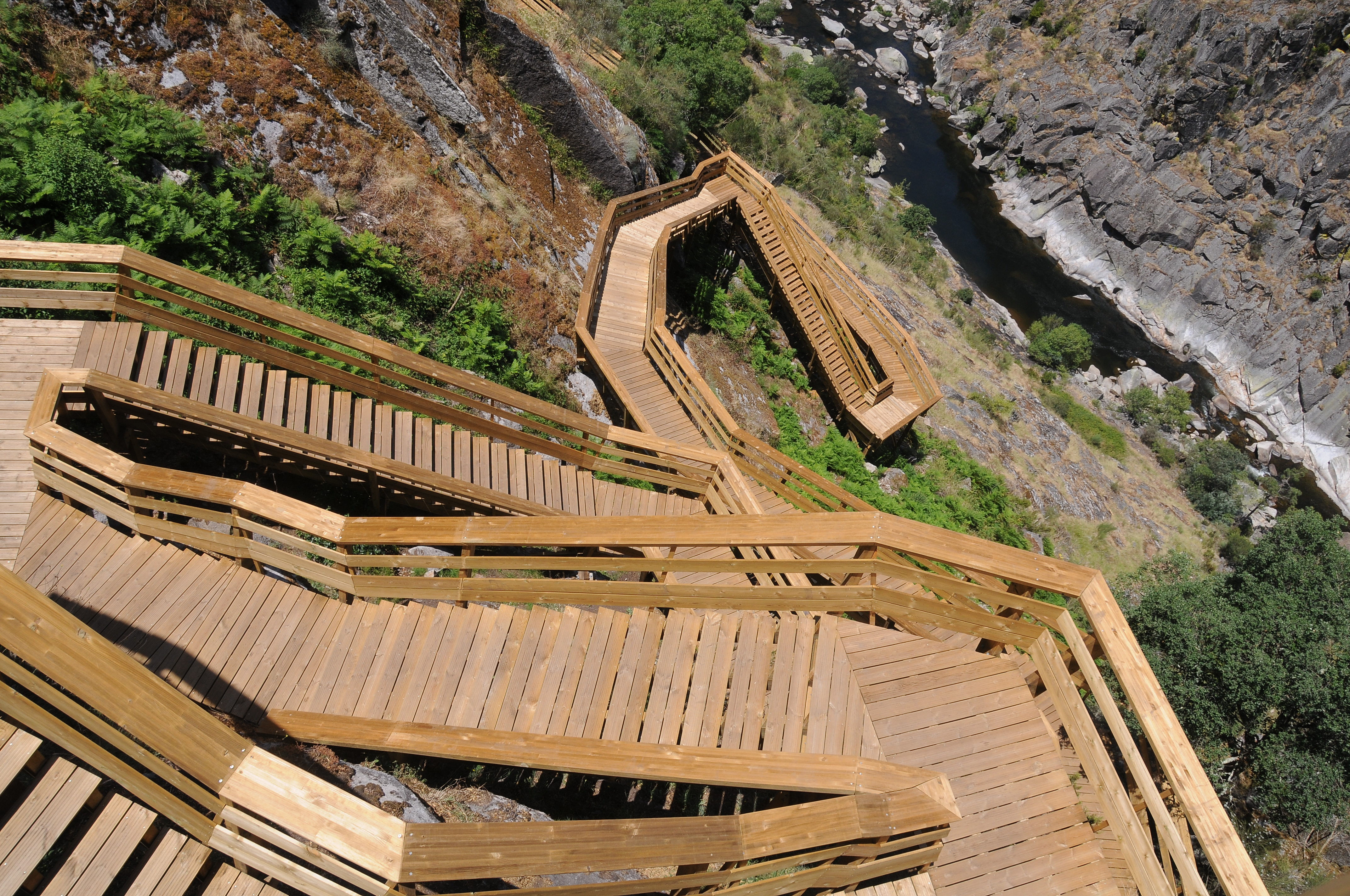 Paiva river in Arouca, Portugal.